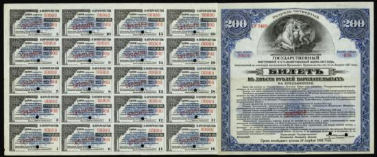 200 rubles 1917 with coupons.jpg